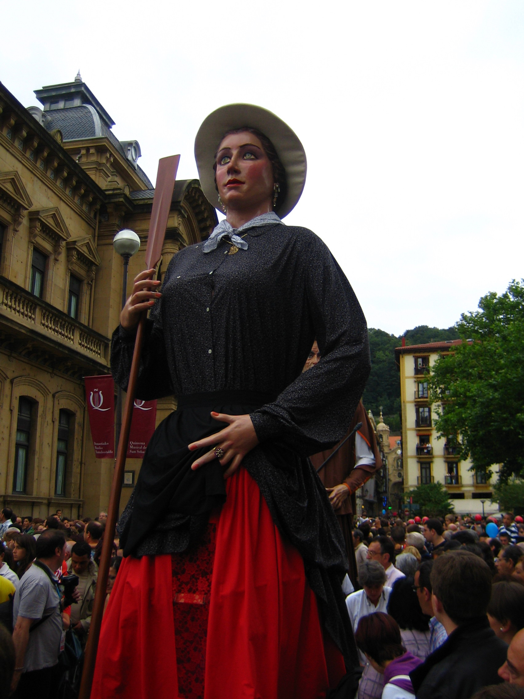 Geants in San Sebastian